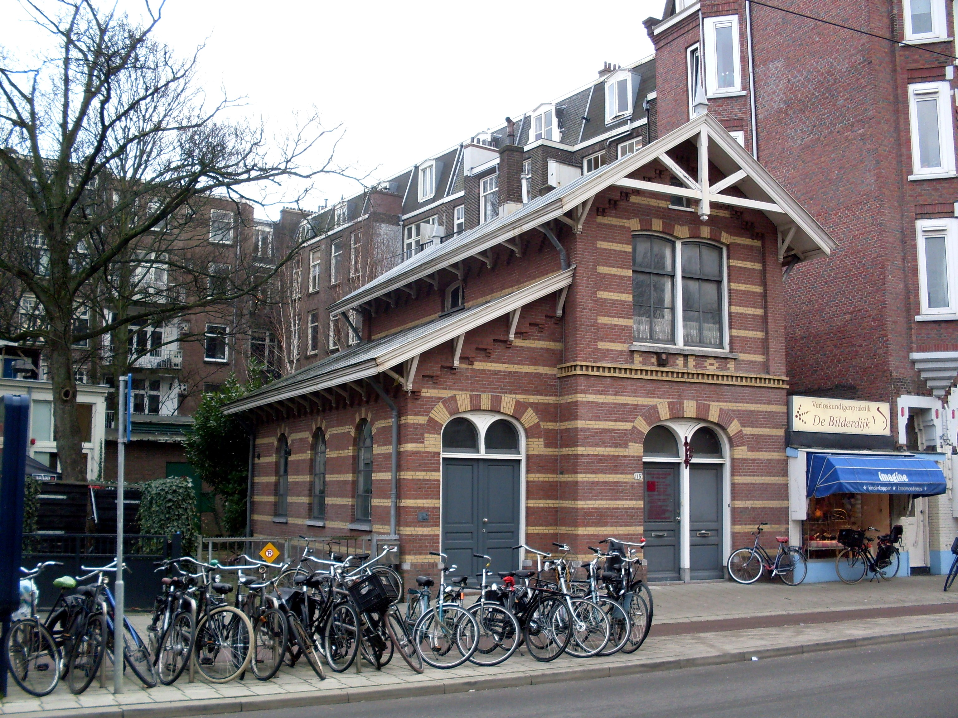 Voormalig stoomgemaal Amstelveenseweg 115